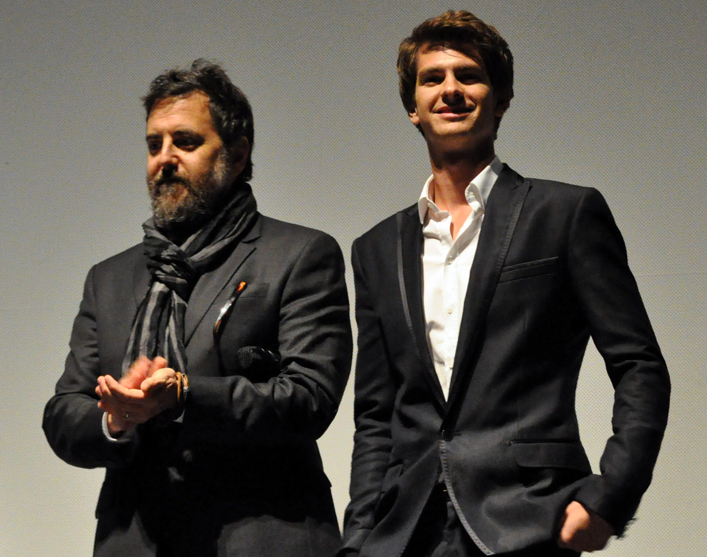 Mark Romanek and Andrew Garfield at the screening of Never Let Me Go at the 2010 Toronto International Film Festival. (Photo taken September 11, 2010.)